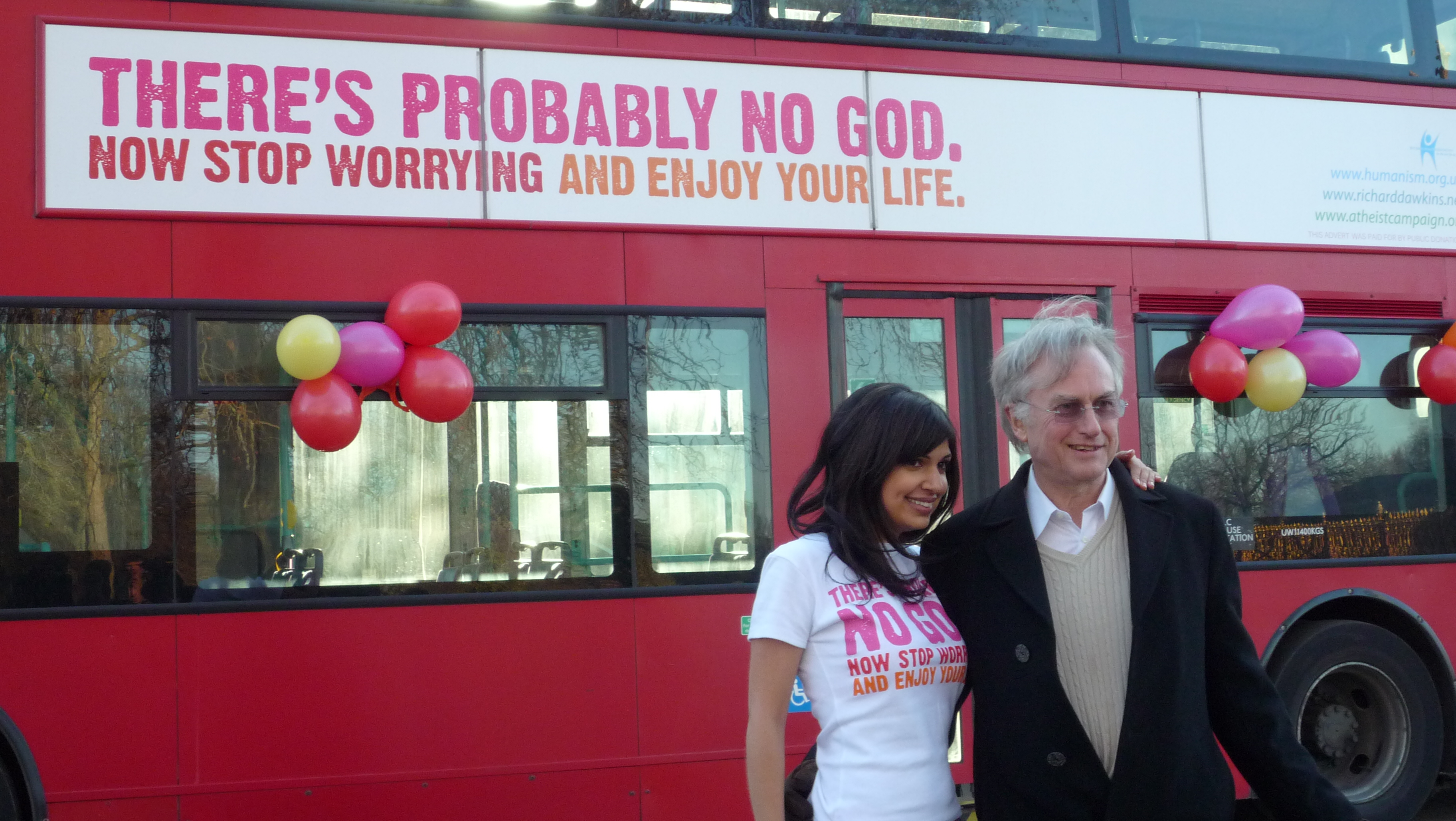 Atheist Bus Campaign creator Ariane Sherine and Richard Dawkins at its launch in London.